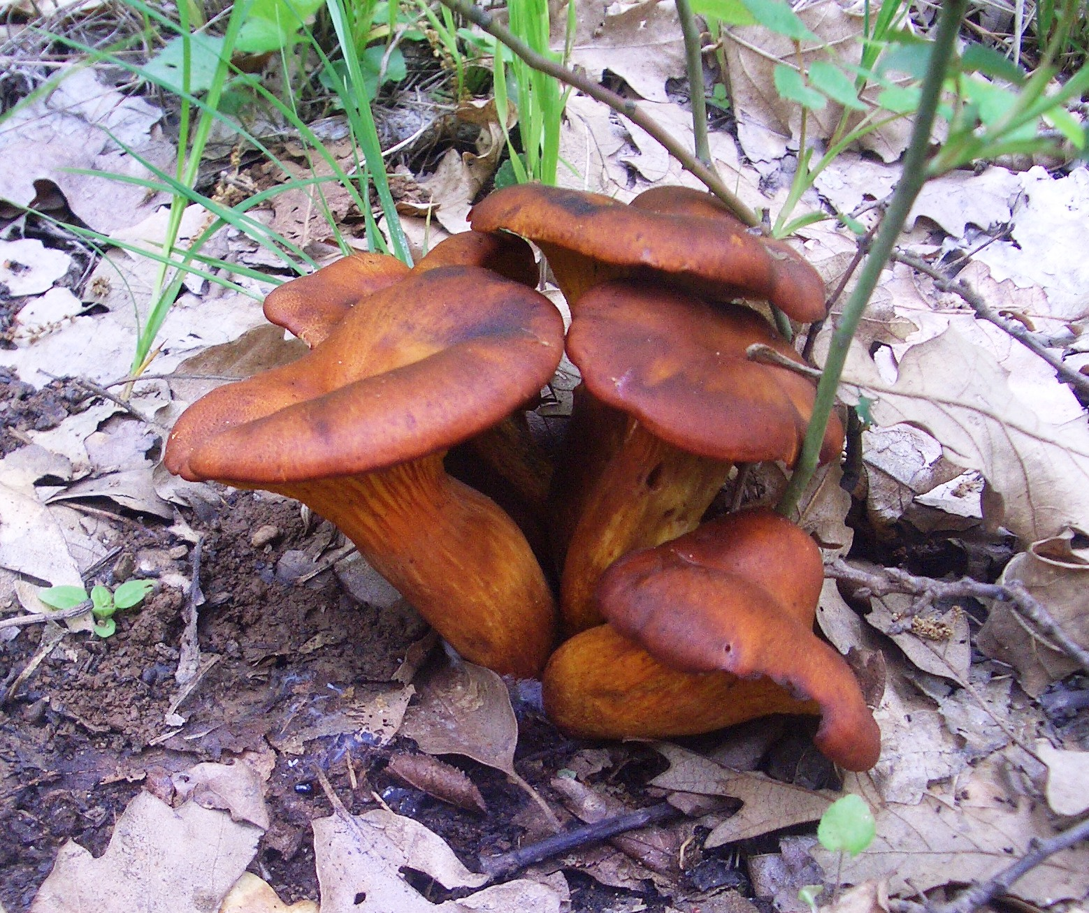 Omphalotus olearius